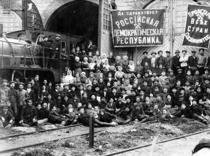 Russian Democratic Federal Republic. Huː Orosz Demokratikus Szövetségi Köztársaság. Taken on the 19th of January, 1918.